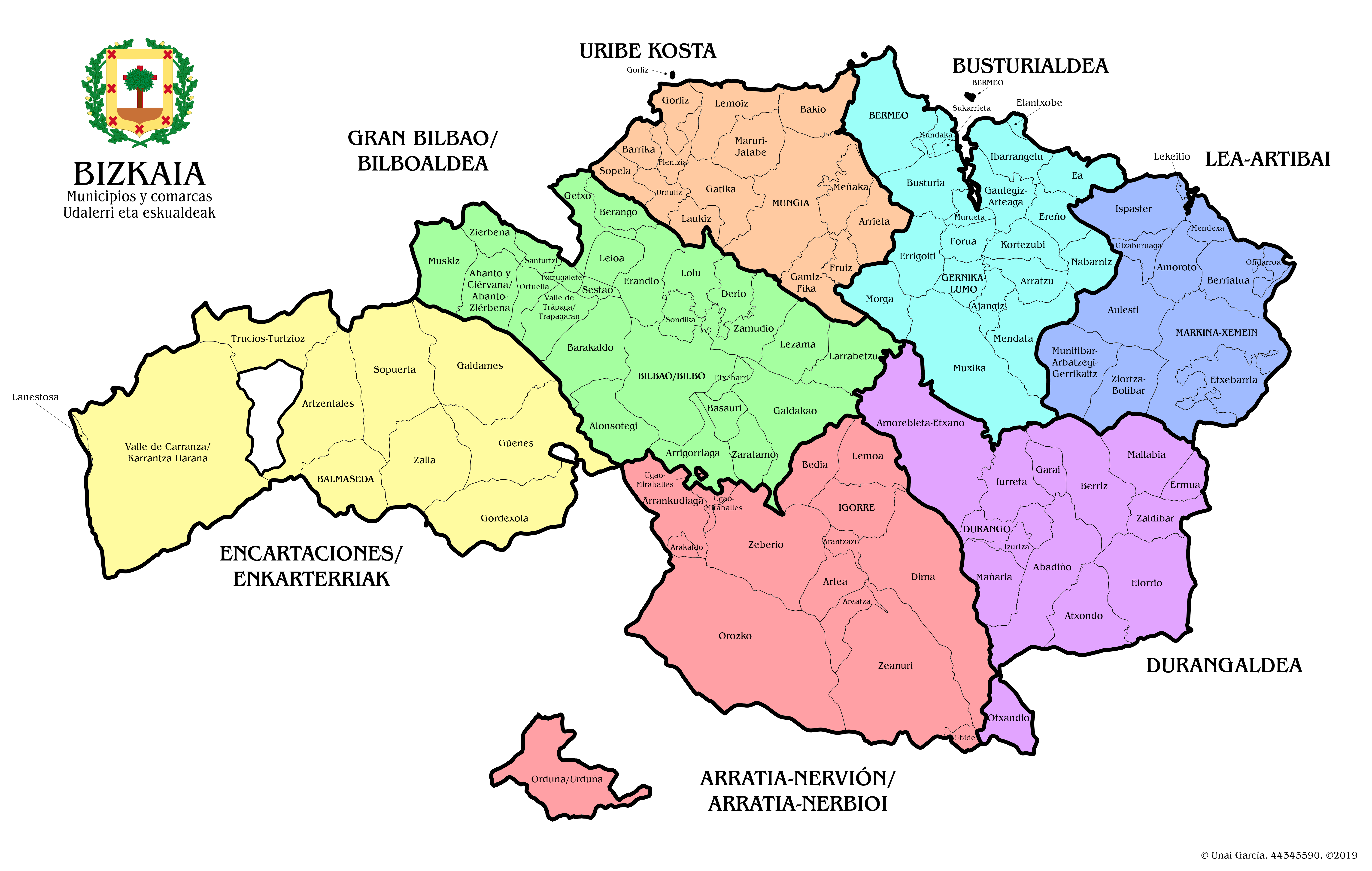 Political map of Biscay (Updated: 2019)